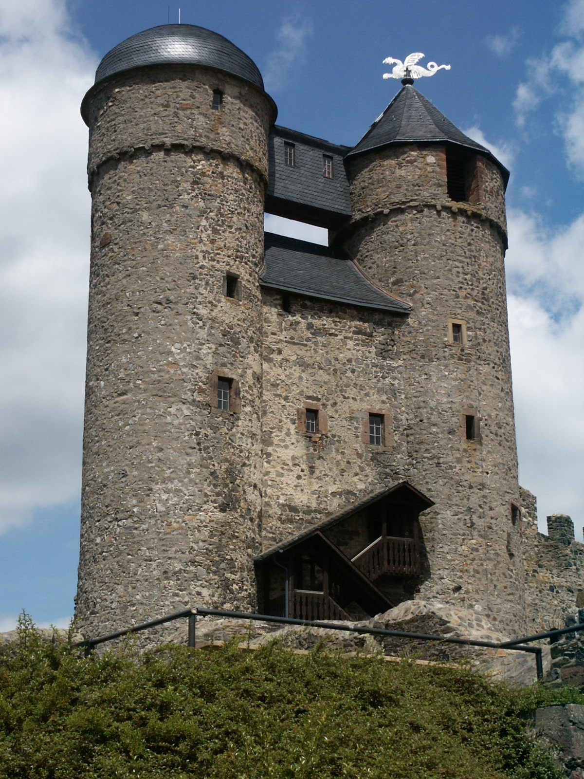 Burg Greifenstein